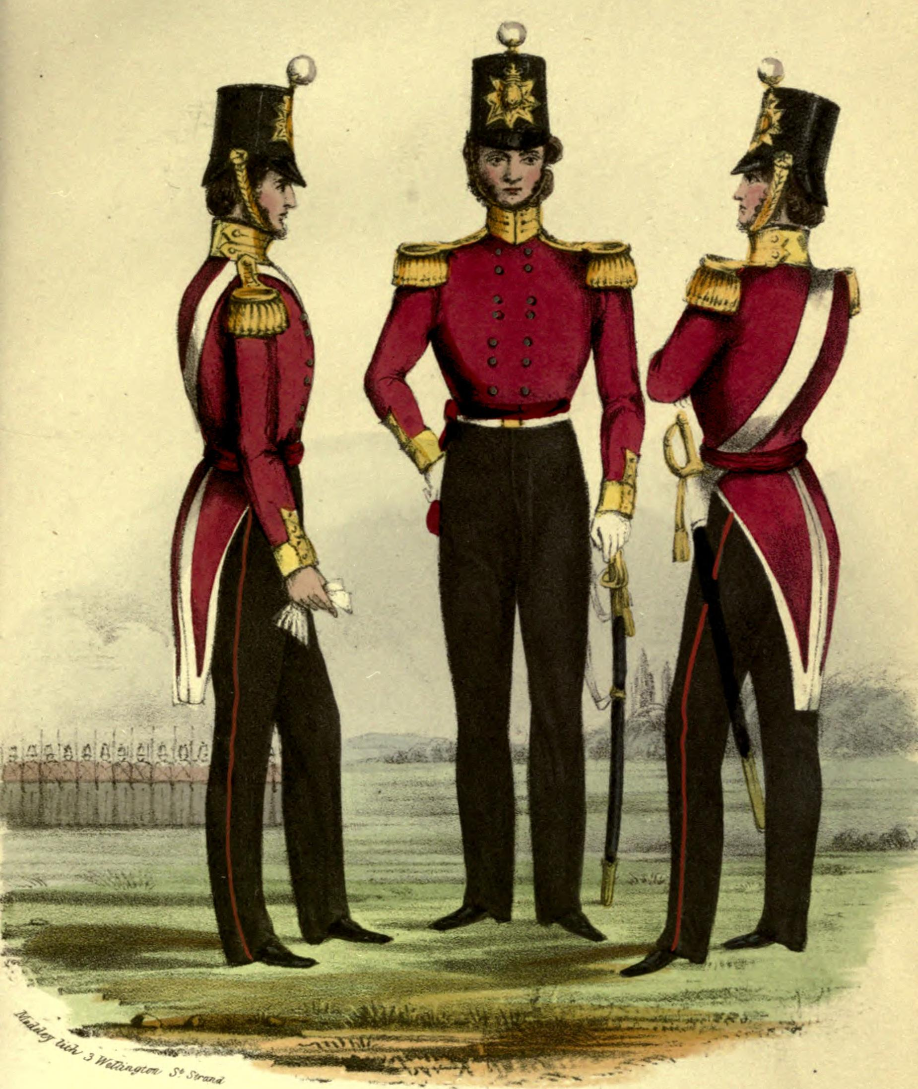 Uniform of the 46th Foot.